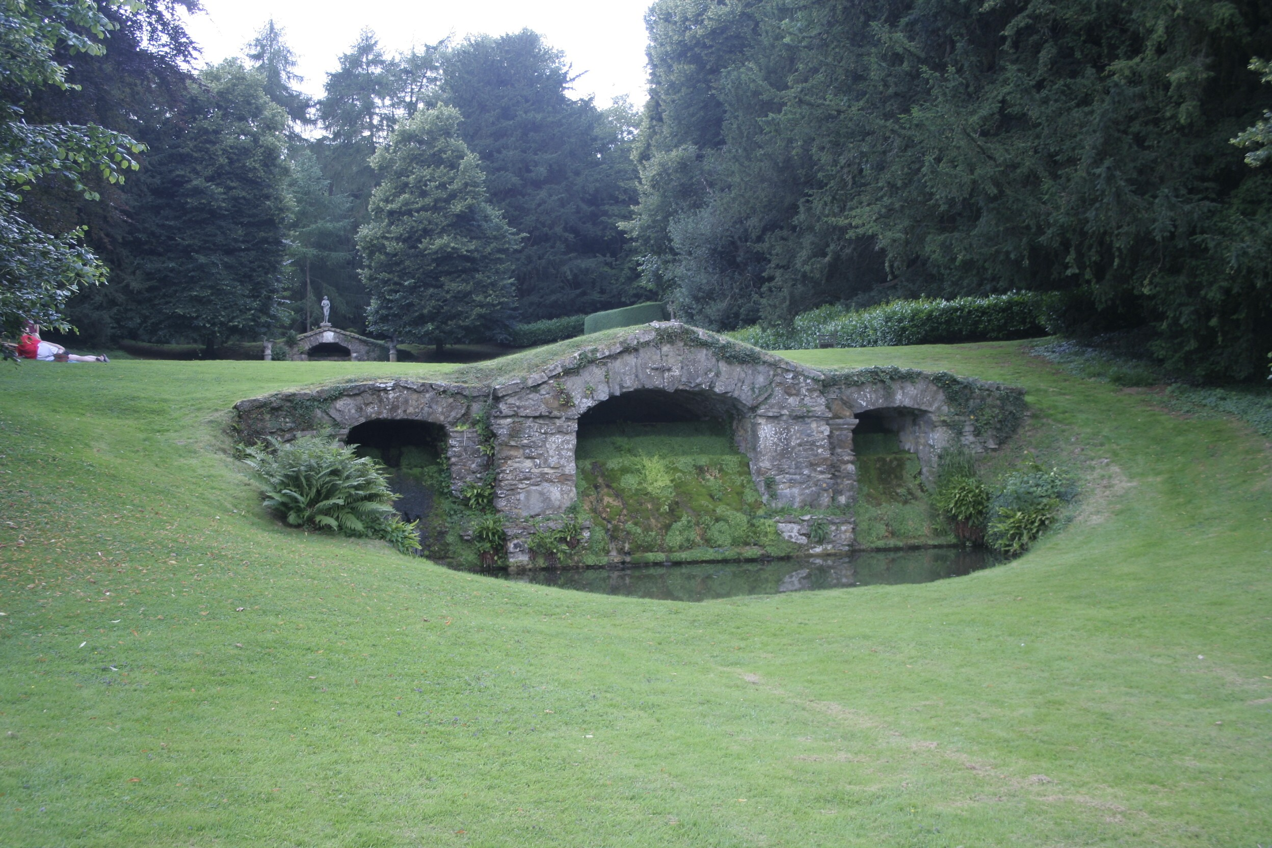 Rousham House Garden